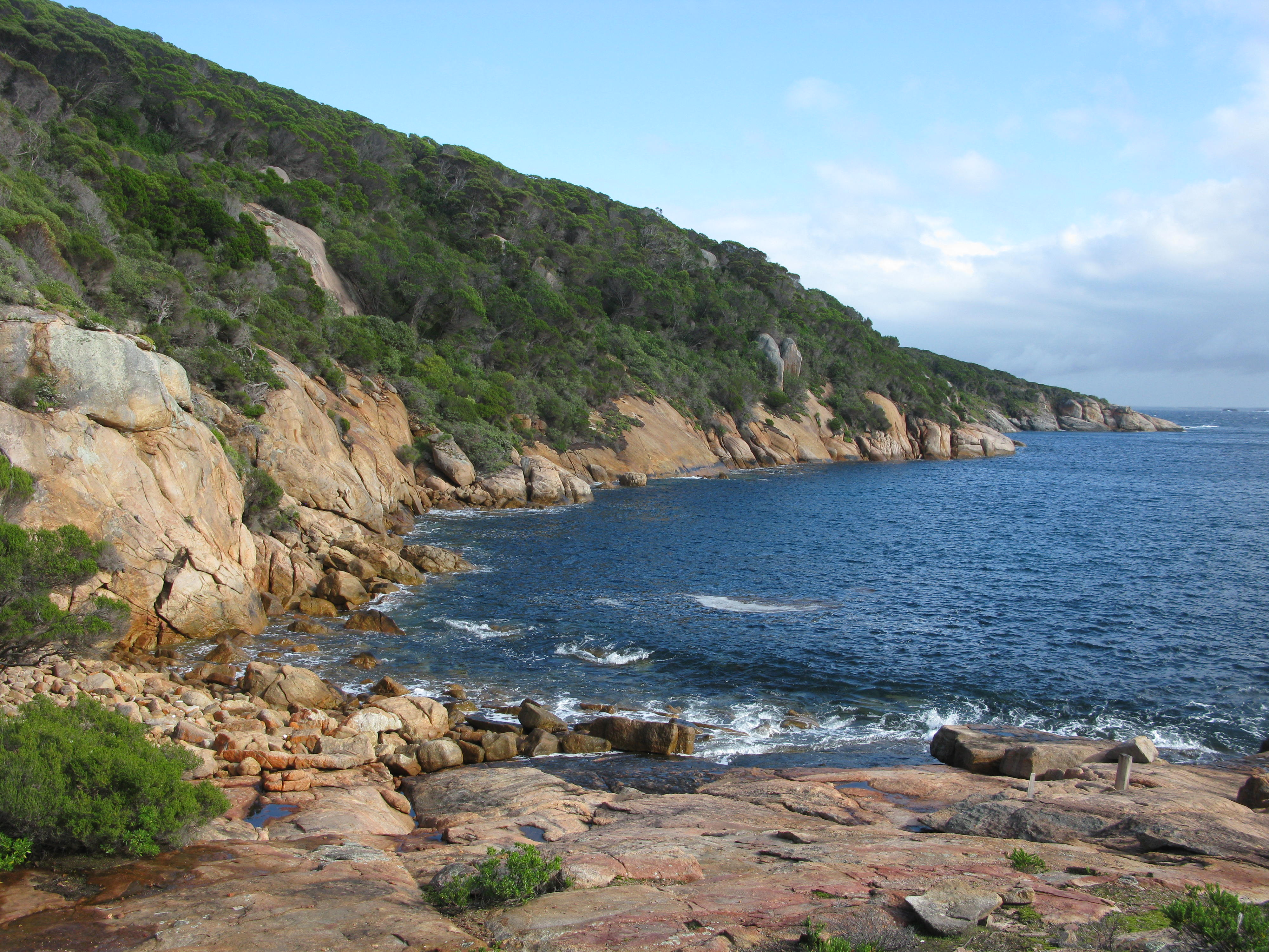 Author: Laurent MARSOL Source: made with my Canon camera on 16/08/2012 Comment: Skinny Dip Bay on Woody Island Nature reserve in August 2012.